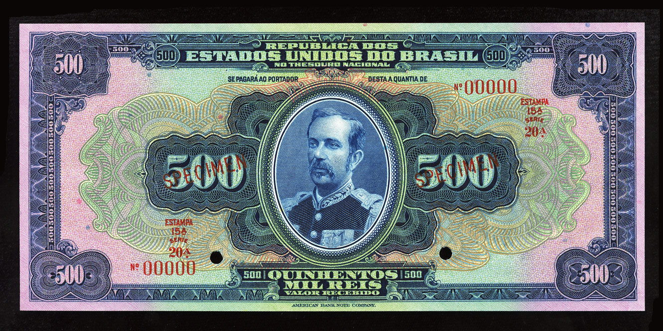 Currency of Brazil 500 Mil Reis banknote of 1931, Floriano Peixoto.